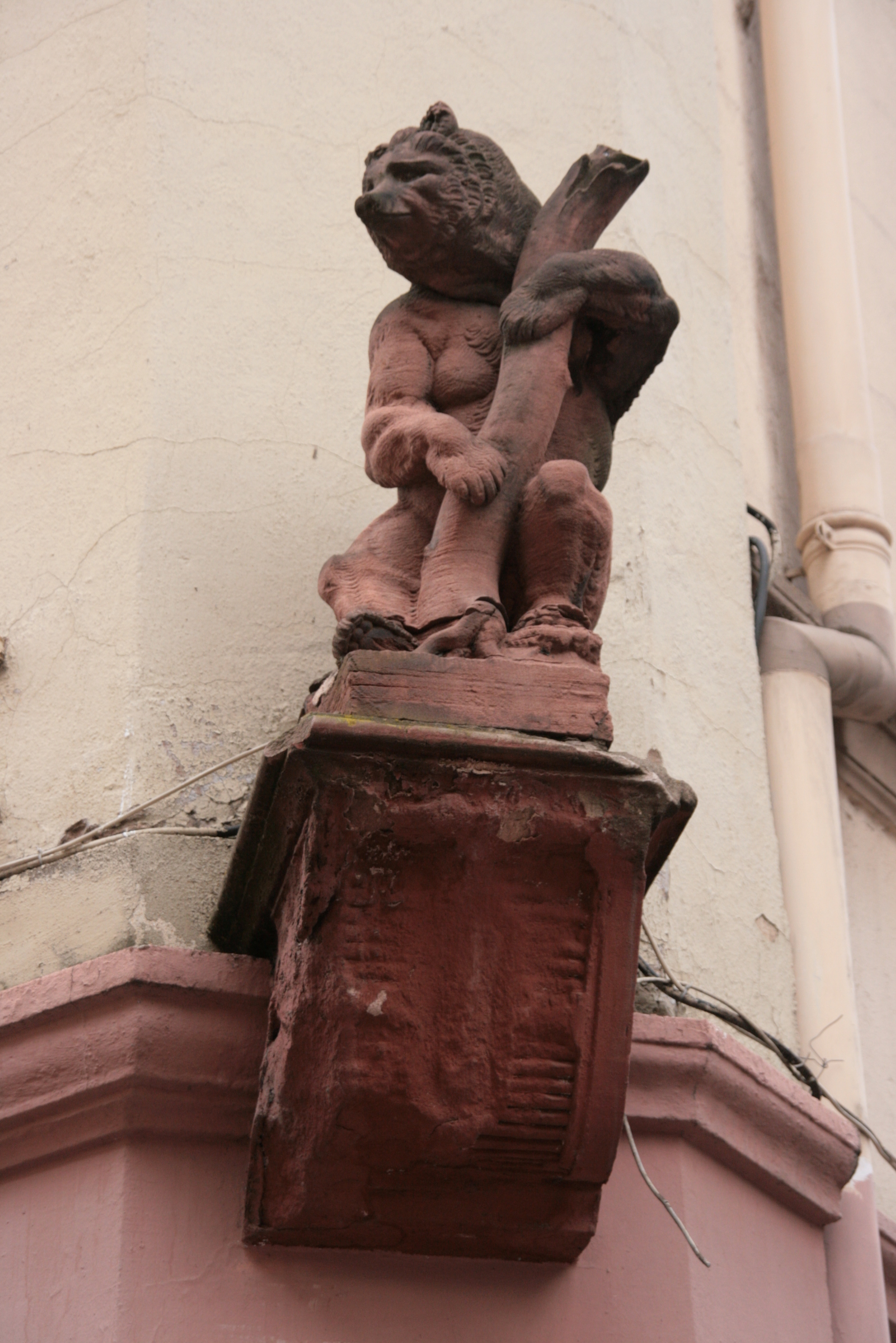 Statue of a bear at the intersection corner of rues Klein and d'Austerlitz in Strasbourg, France